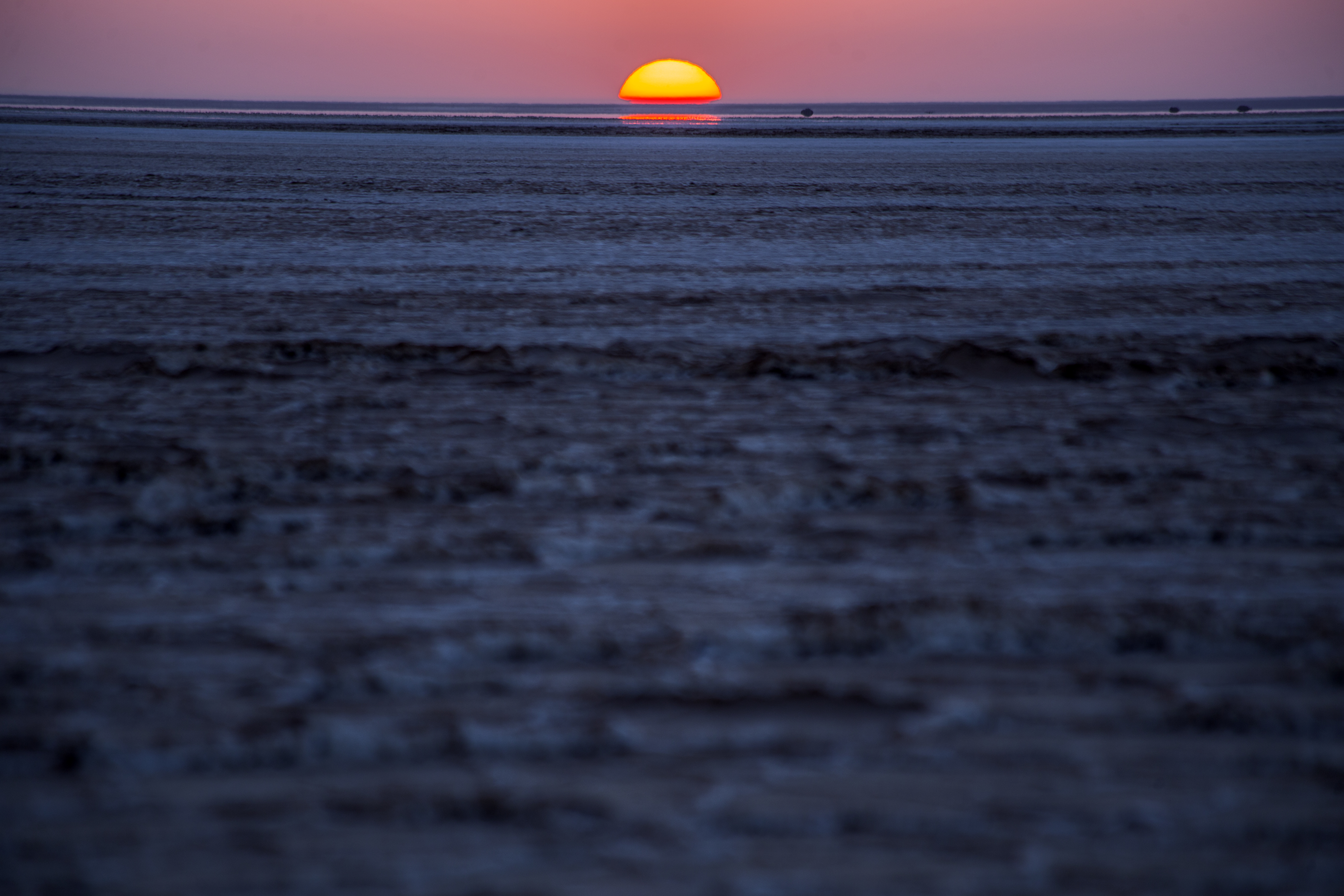 Salt lake "Houz Soltan" in Qom province- Iran